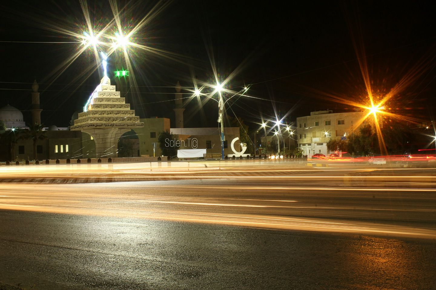 Al-Mazar Al Janoobi/ Karak/ Jordan